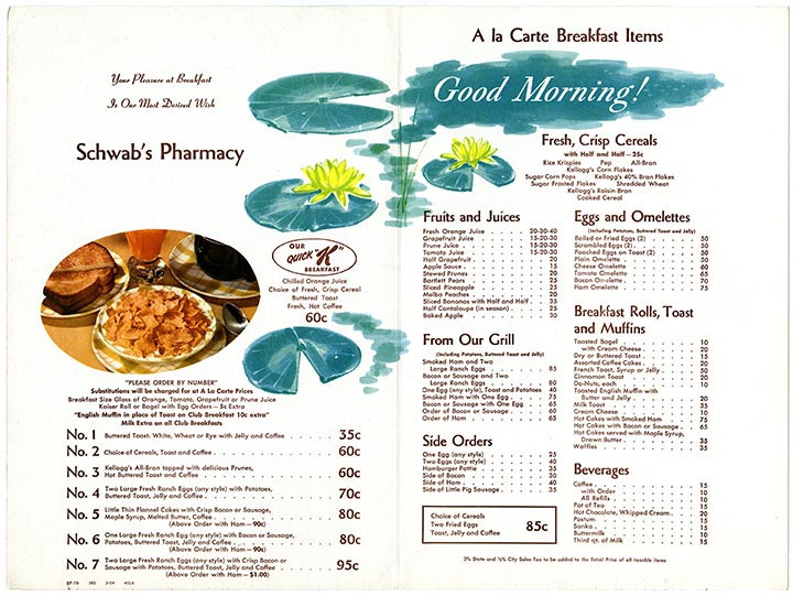 Repository: California Historical Society Digital object ID: CHS2014.1468 [b] Call number: MENU COL Collection: California menu collection Date: circa 1955 Preferred citation: Menu, Schwab's Pharmacy, Los Angeles [open], California menu collection, courtesy, California Historical Society, CHS2014.1468 [b].jpg. Online finding aid